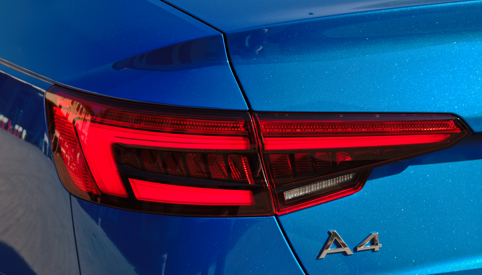 2015 Audi A4 B9 S line Arablau-Kristalleffekt LED Rear Light